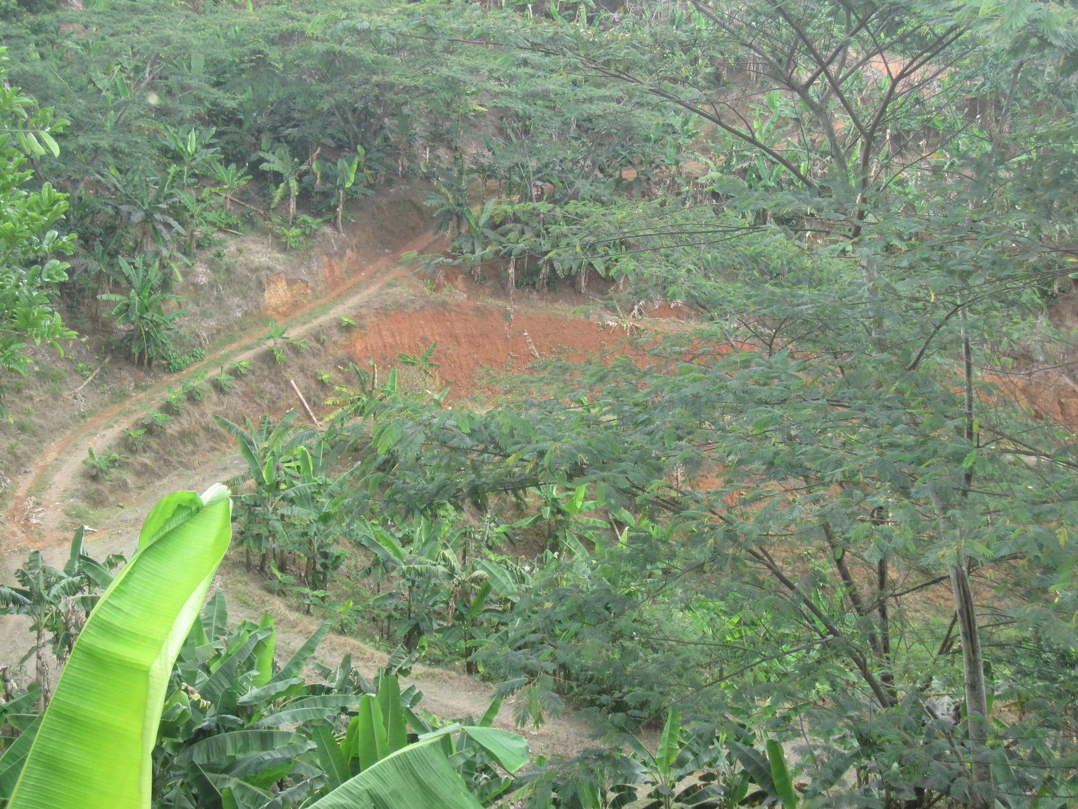 View of Barrio La Torre, in Lares, Puerto Rico